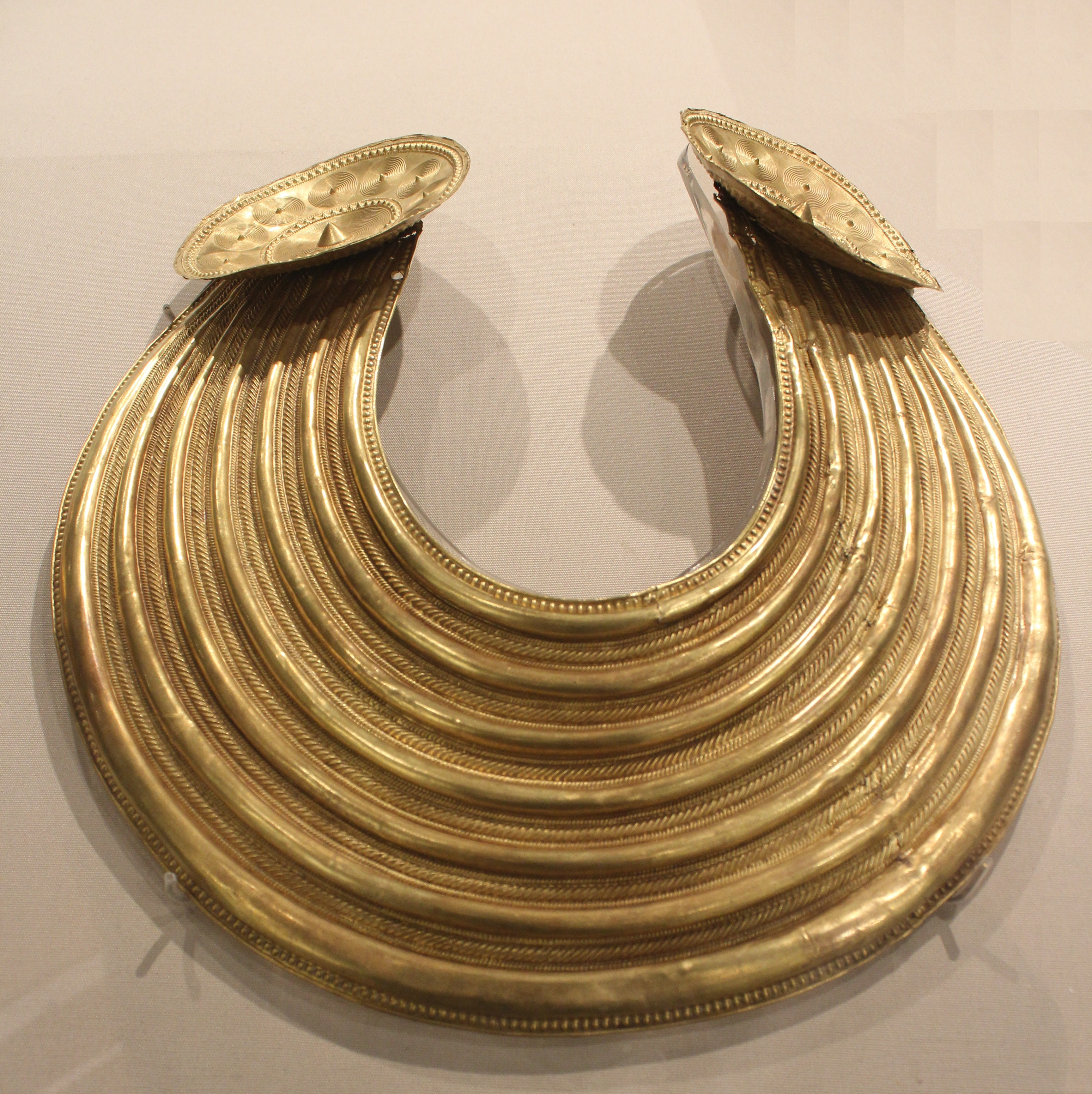 The Glensheen gold gorget (or collar) dates from 800 to 700 BC and was found in a rock fissure in Co. Clare in 1932. The style of the gorget bears a strong resemblance to the styles of ultra-luxurious and superfine goods found in contemporary Europe, giving evidence of links between Ireland and the European mainland. This gorget, which is housed in the National Museum of Ireland is item 12 in A History of Ireland in 100 Objects.[1]